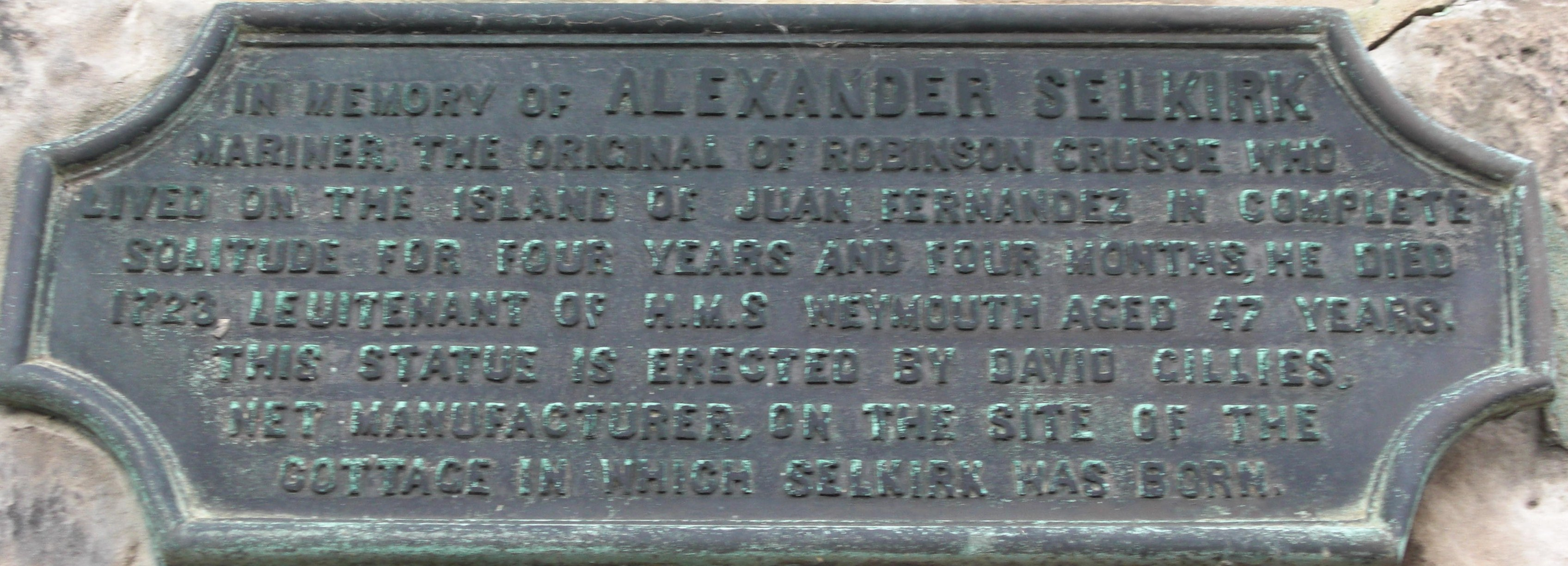 This plaque is on the building at the site of Alexander Selkirk's original house on Main Street, Lower Largo, Fife, Scotland. A large statue honoringf him is located nearby.